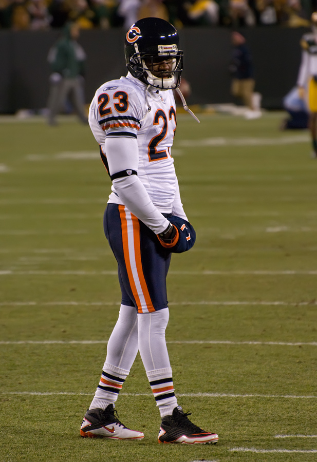 Chicago Bears vs. Green Bay Packers at Lambeau Field on December 25, 2011. Photo by Mike Morbeck.